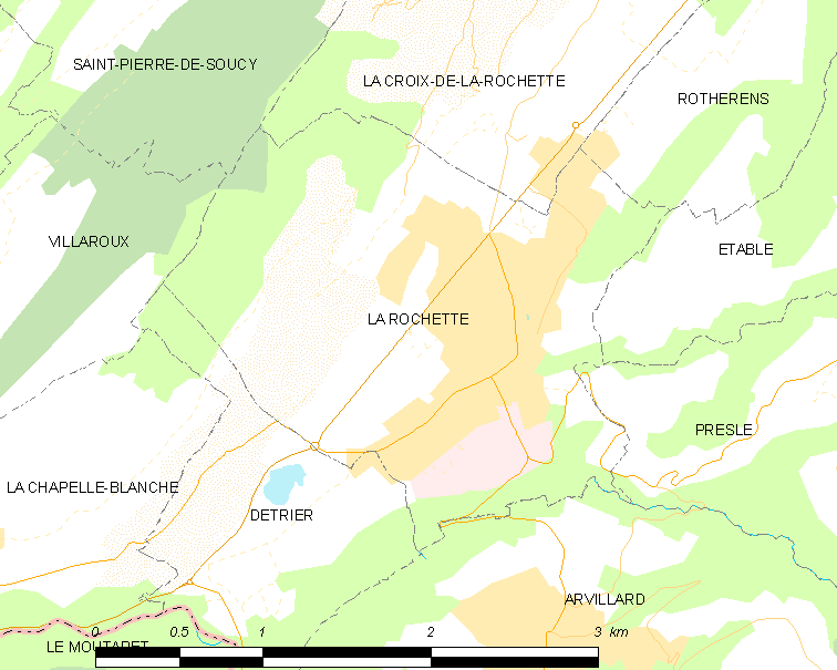 Map of French municipality